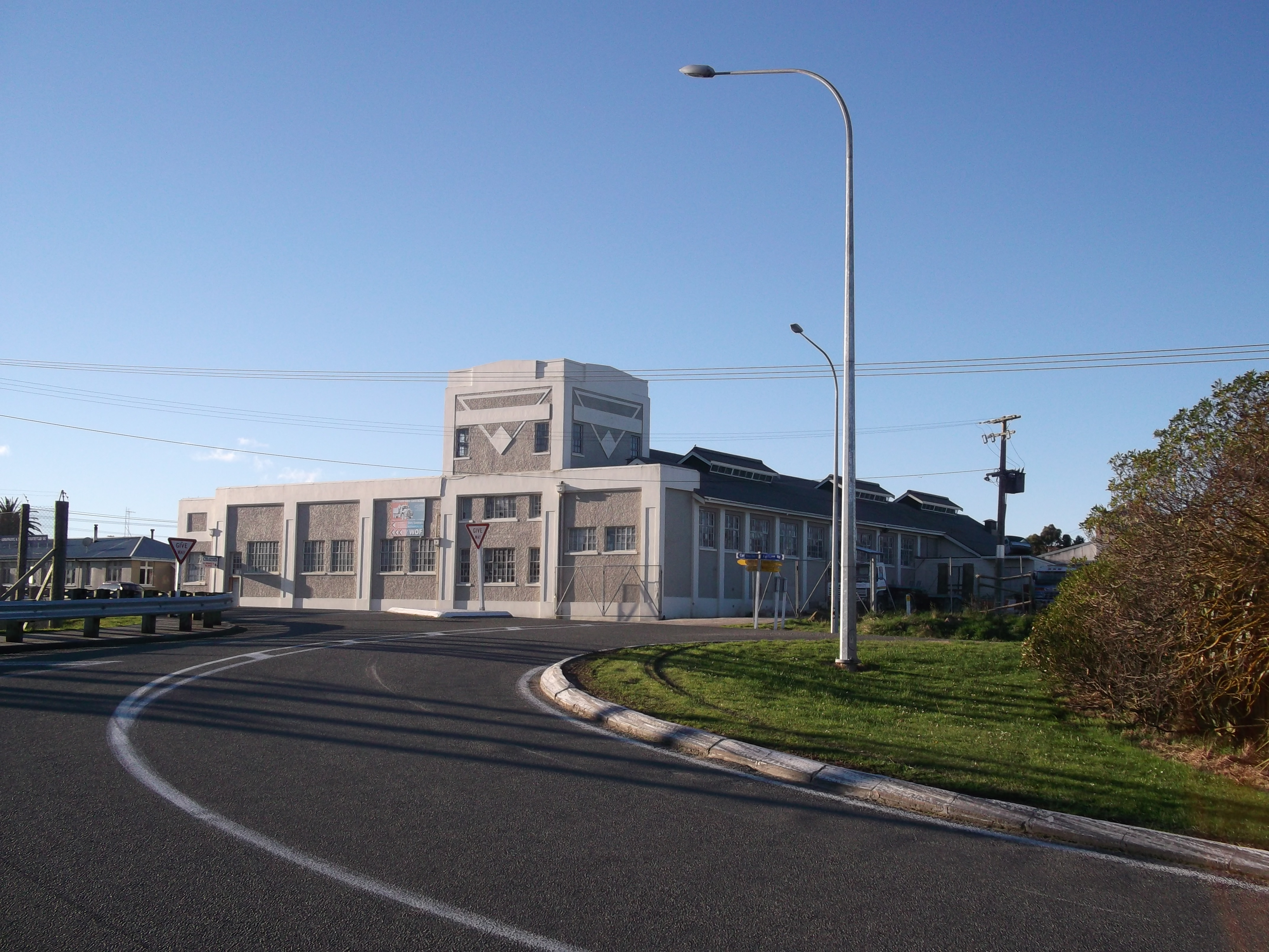 A view of the historic Glaxo factory in Bunnythorpe, New Zealand.